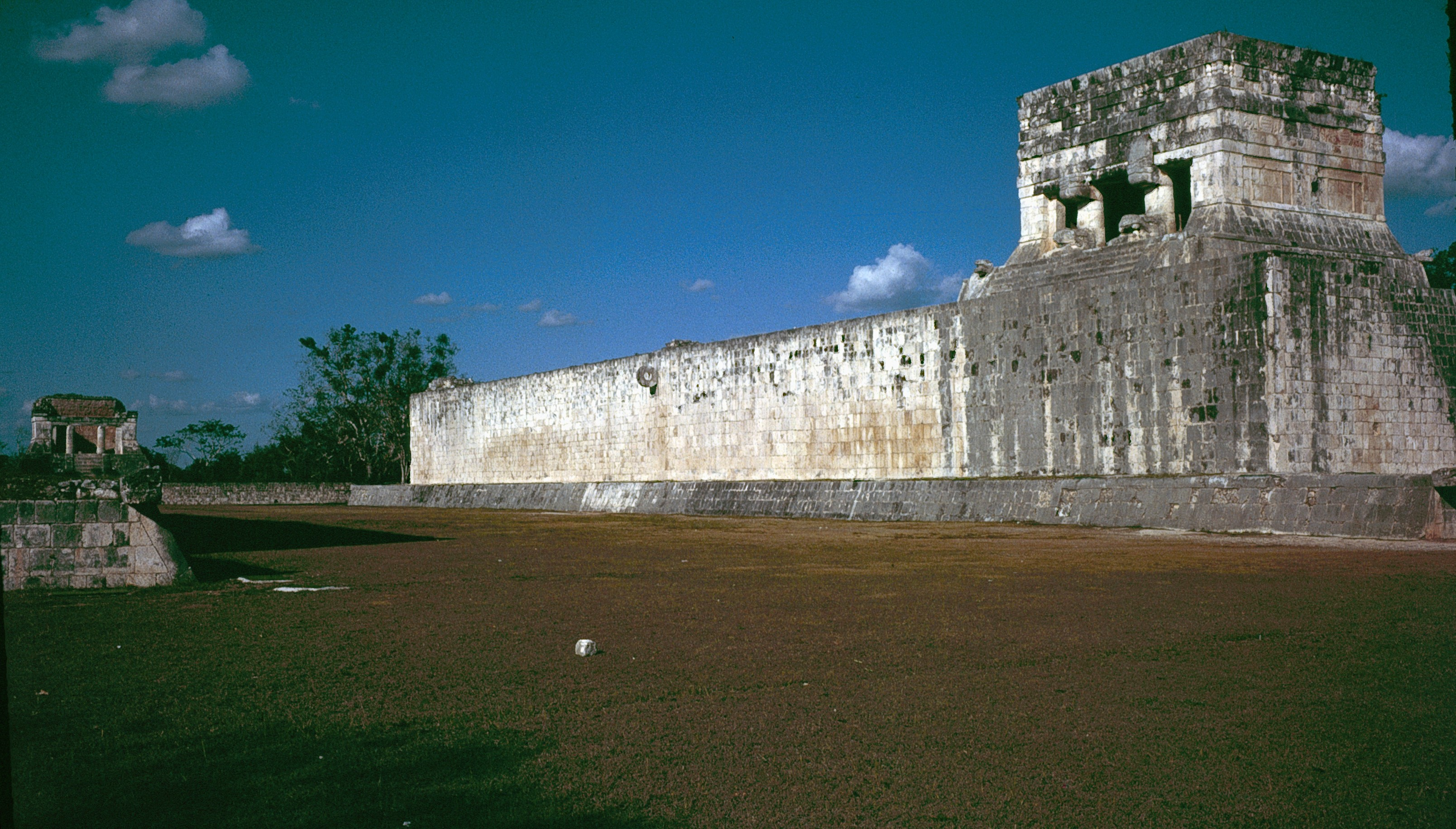 Chichen Itza, Yucatan, Mexico: Juego de Pelota and temple of the Jaguars